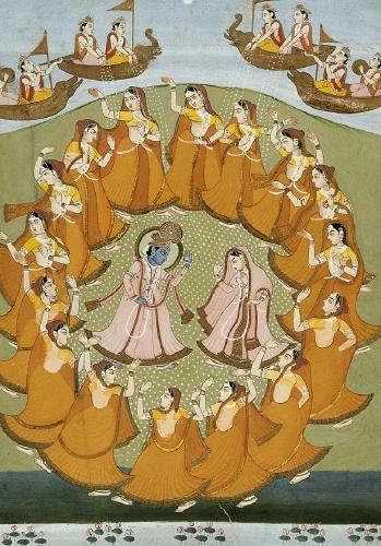 Krishna and Radha dancing the Rasalila, Jaipur, 19th century.